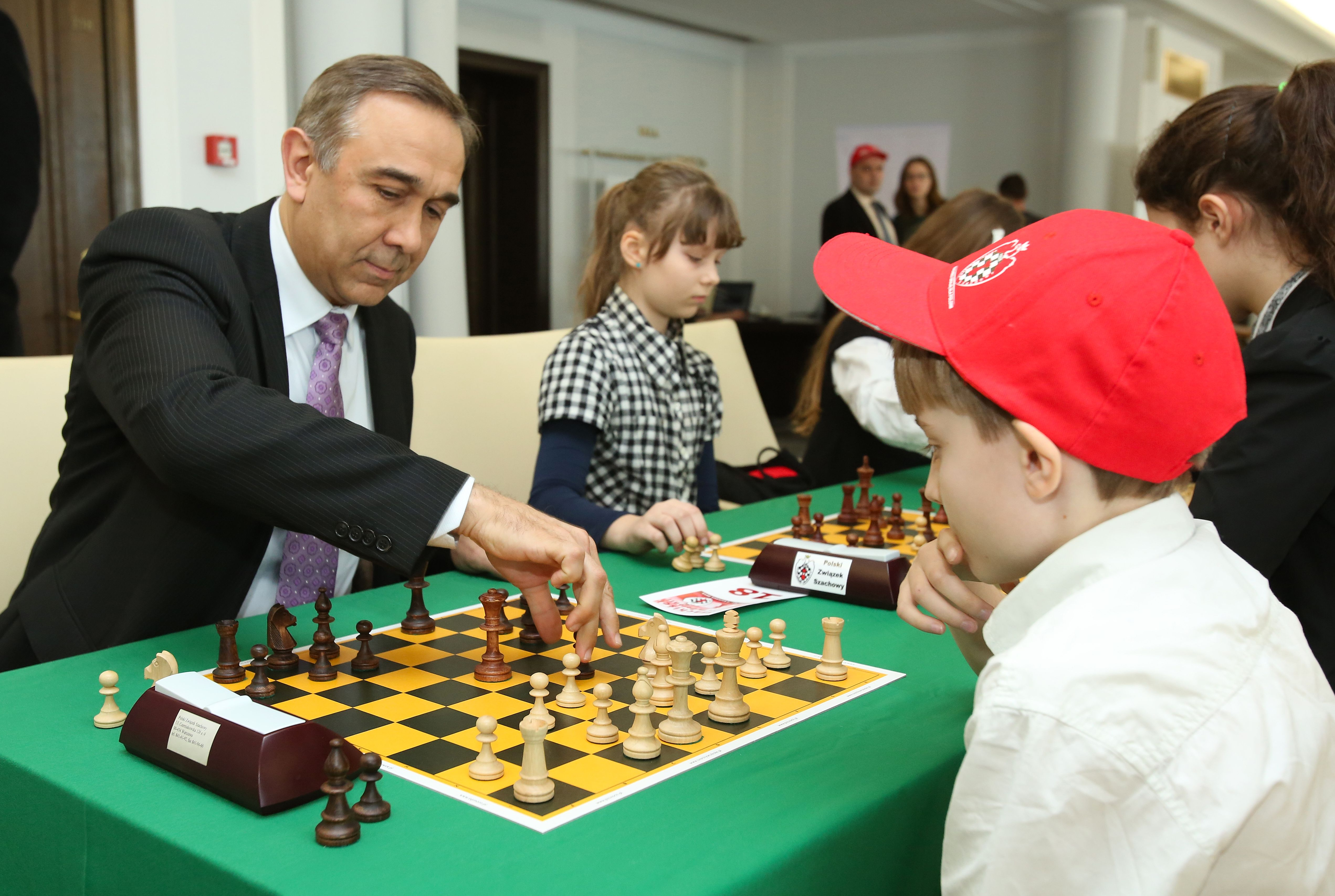 Senator Grzegorz Czelej during the chess tournament "Chess players playing for Polish diaspora" (junior chess players vs members of Parliament) in the Polish Senate